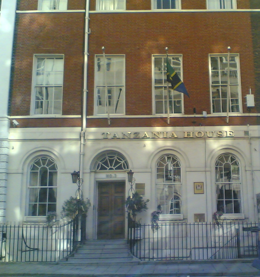 High Commission of Tanzania in the United Kingdom